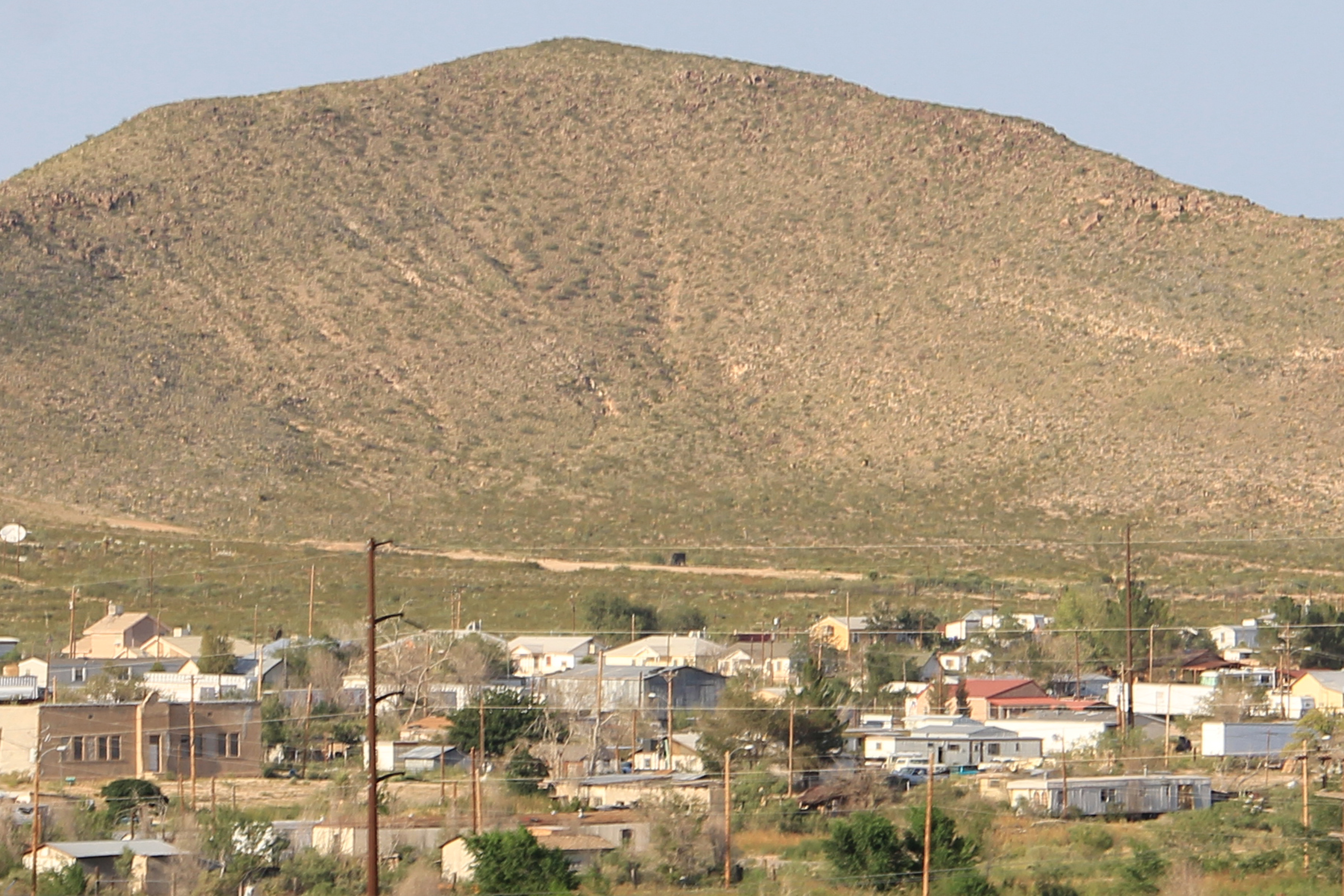 Downtown from I10